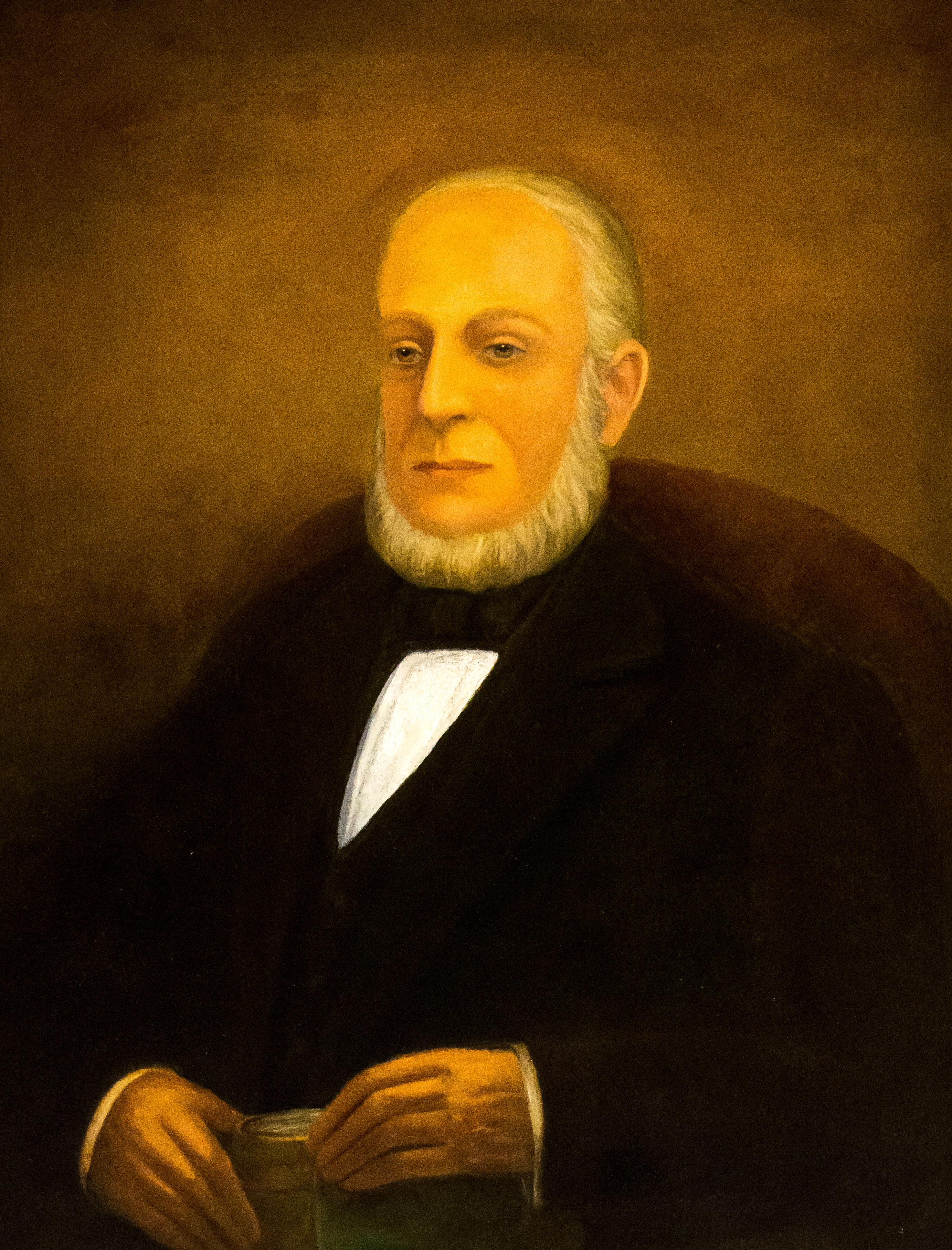 RI Governor William Cozzens. Official portrait by Anna C. Freeland (1837-1911), in the Rhode Island State House.